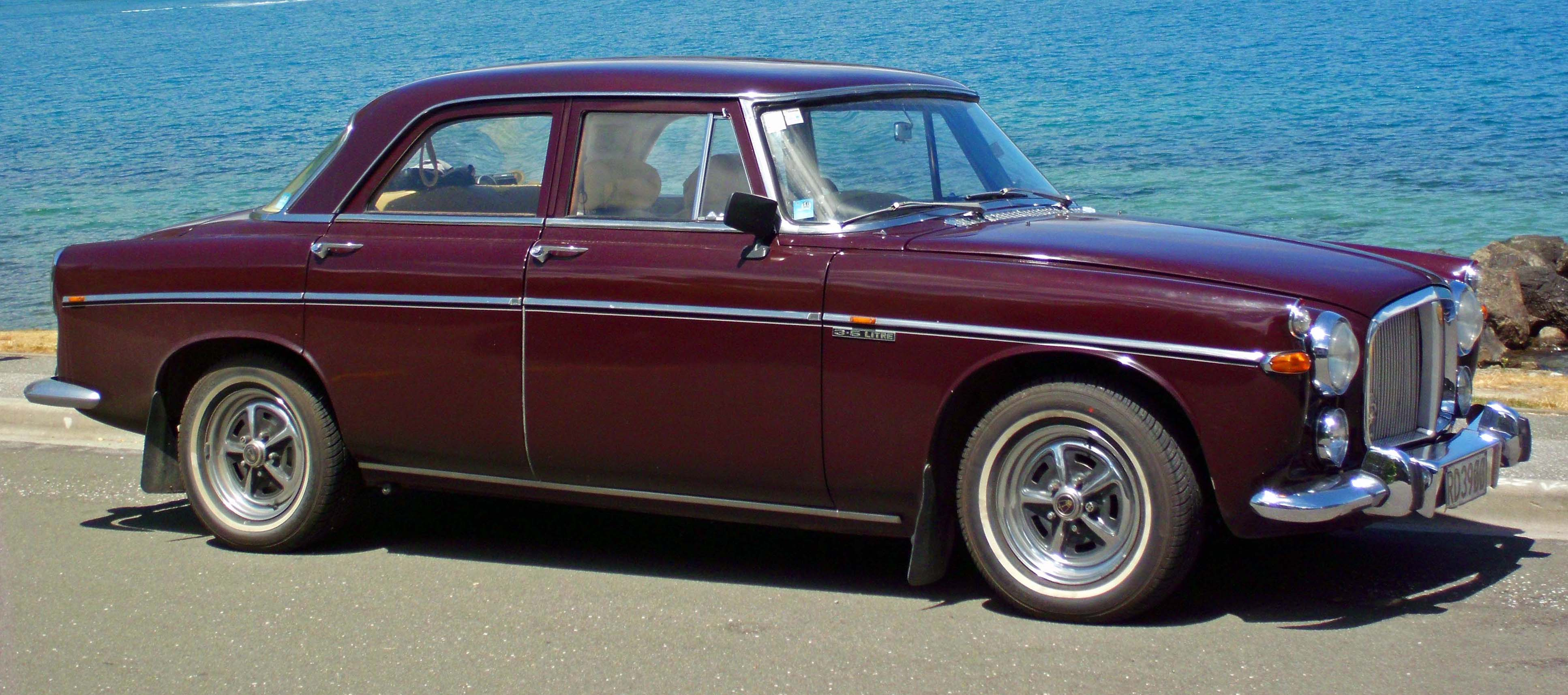 Rover 3.5 Litre Saloon in Queenstown, New Zealand